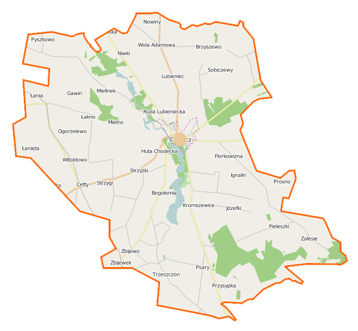 Map of Gmina Chodecz, Poland This map of Chodecz (gmina) was created from OpenStreetMap project data, collected by the community. This map may be incomplete, and may contain errors. Don't rely solely on it for navigation. Border coordinates52.462318.9064←↕→19.147552.3263